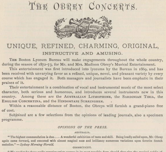 Advertisement for Mr. & Mrs. Madison Obrey, musicians. "Their entertainment ... introduces several instruments new in this country. Among these are the Australian lithophone, the Sardinian tibia, the English concertina, and the Hindostani surringher."